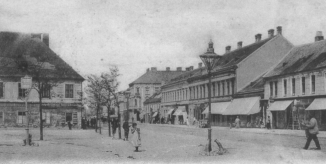 Floridsdorf (Wien) with Hauptstraße and market place. Left a part of the "Spitzer Wirtshaus" and the townhall